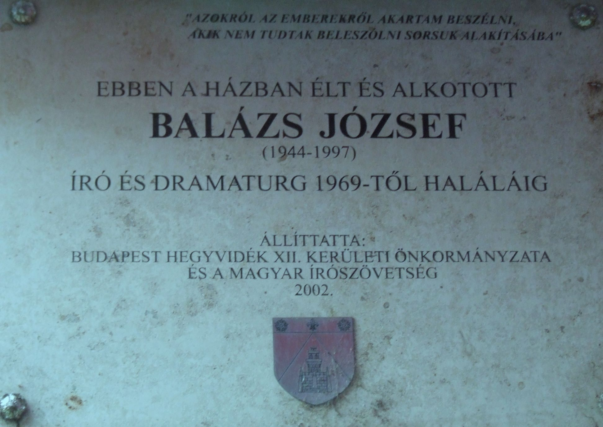 József Balázs (the writer) commemorative plaque in Budapest District XII, Márvány Street No 27